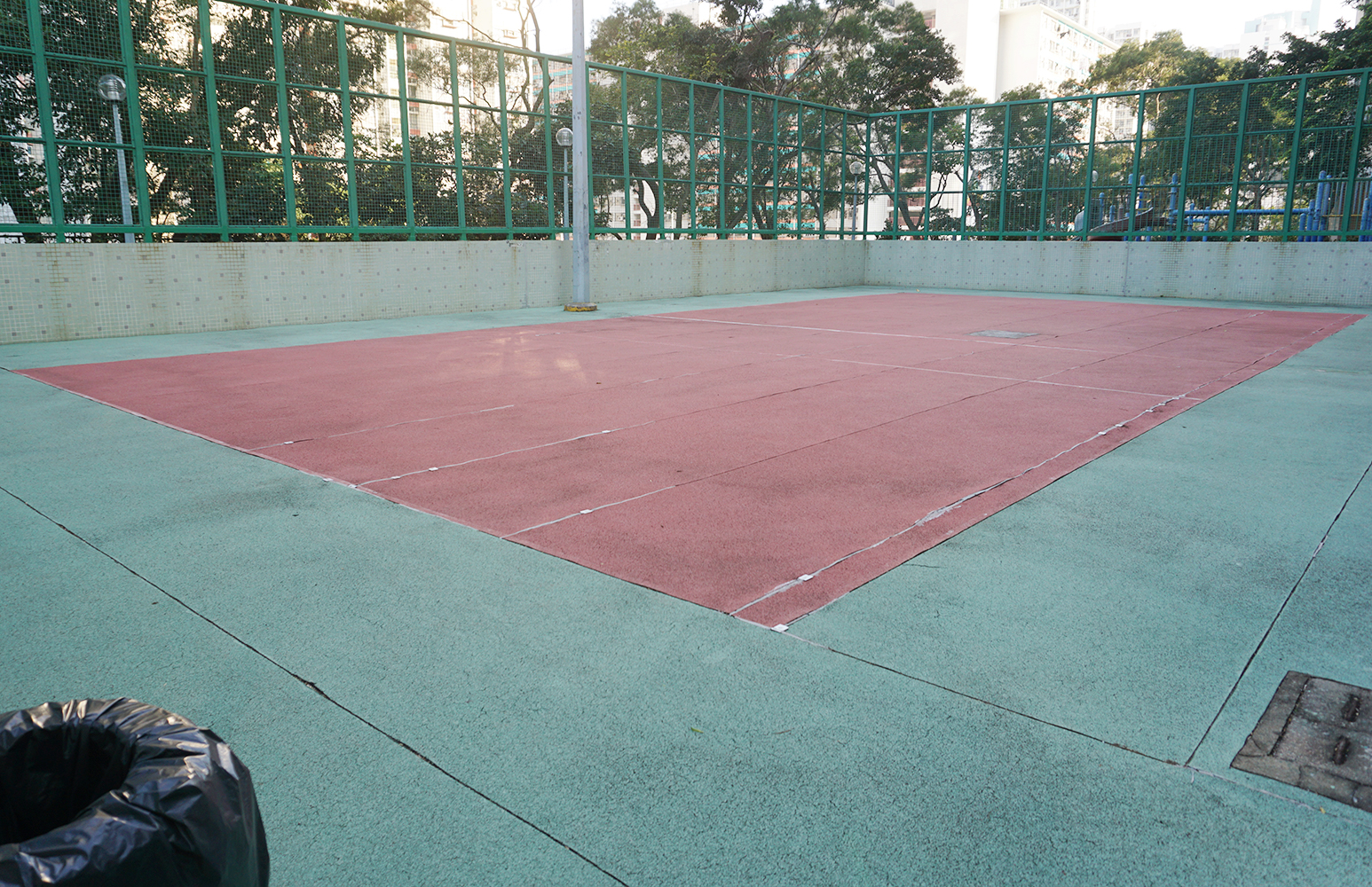 Pang Ching Court in Chuk Yuen, Hong Kong.